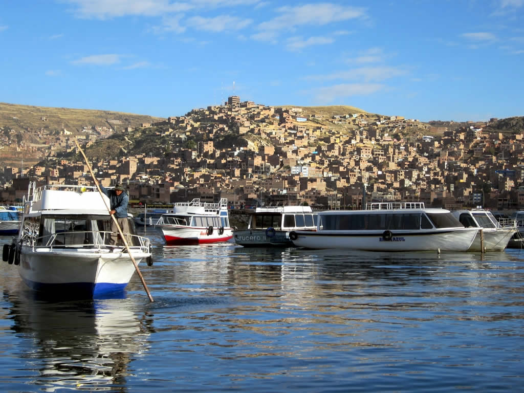 Excursion boats on Lake Titicaca at Puno, Peru.